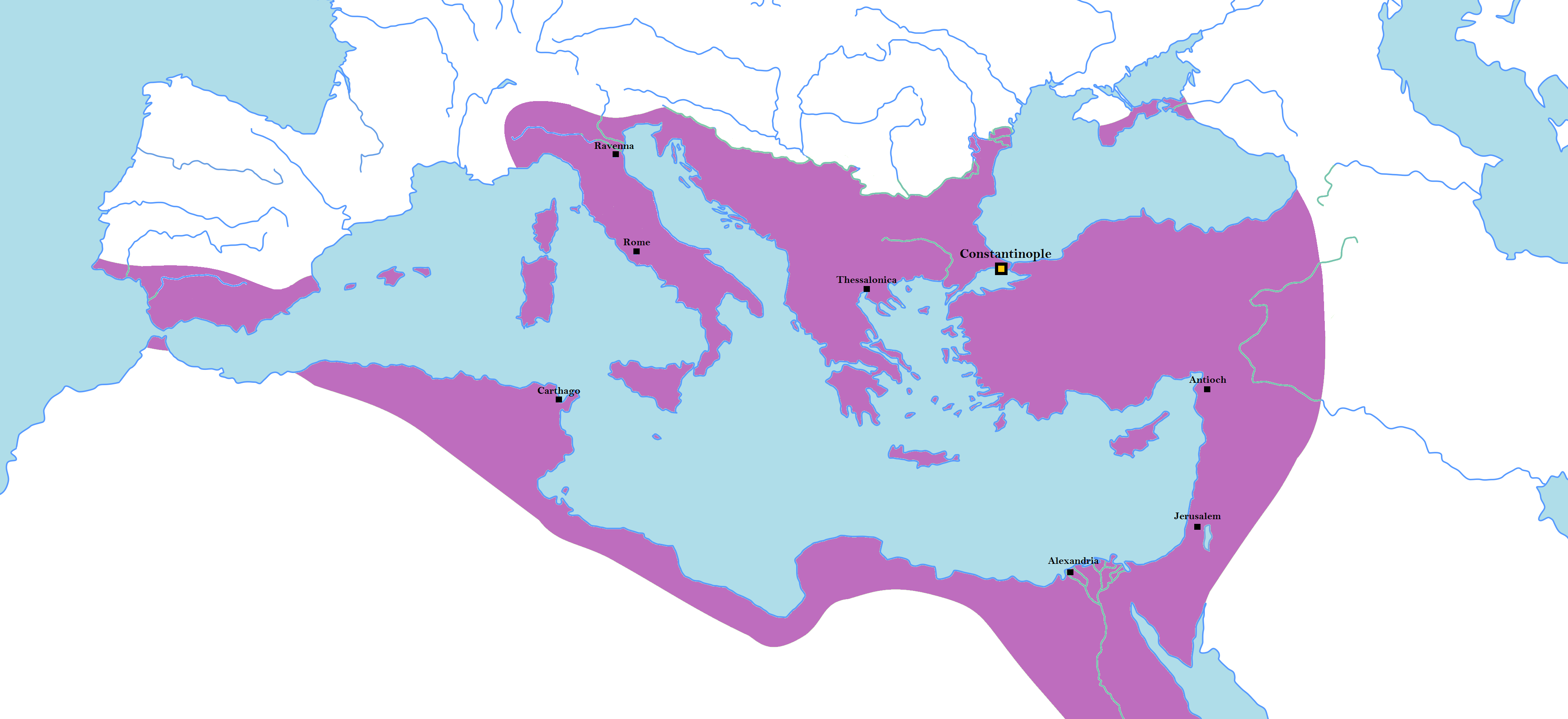 Map of the Byzantine Empire in 555 AD, based on a variety of maps on commons